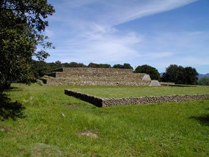 Photograph of one of the temples at Huamango, State of Mexico